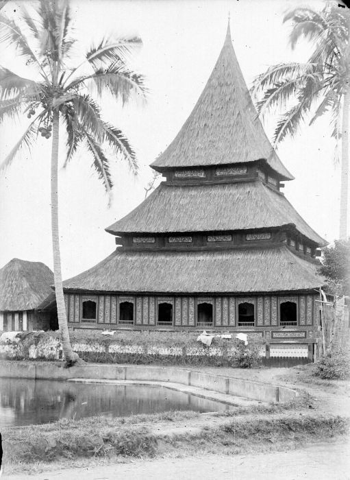 Mosque near Fort de Kock